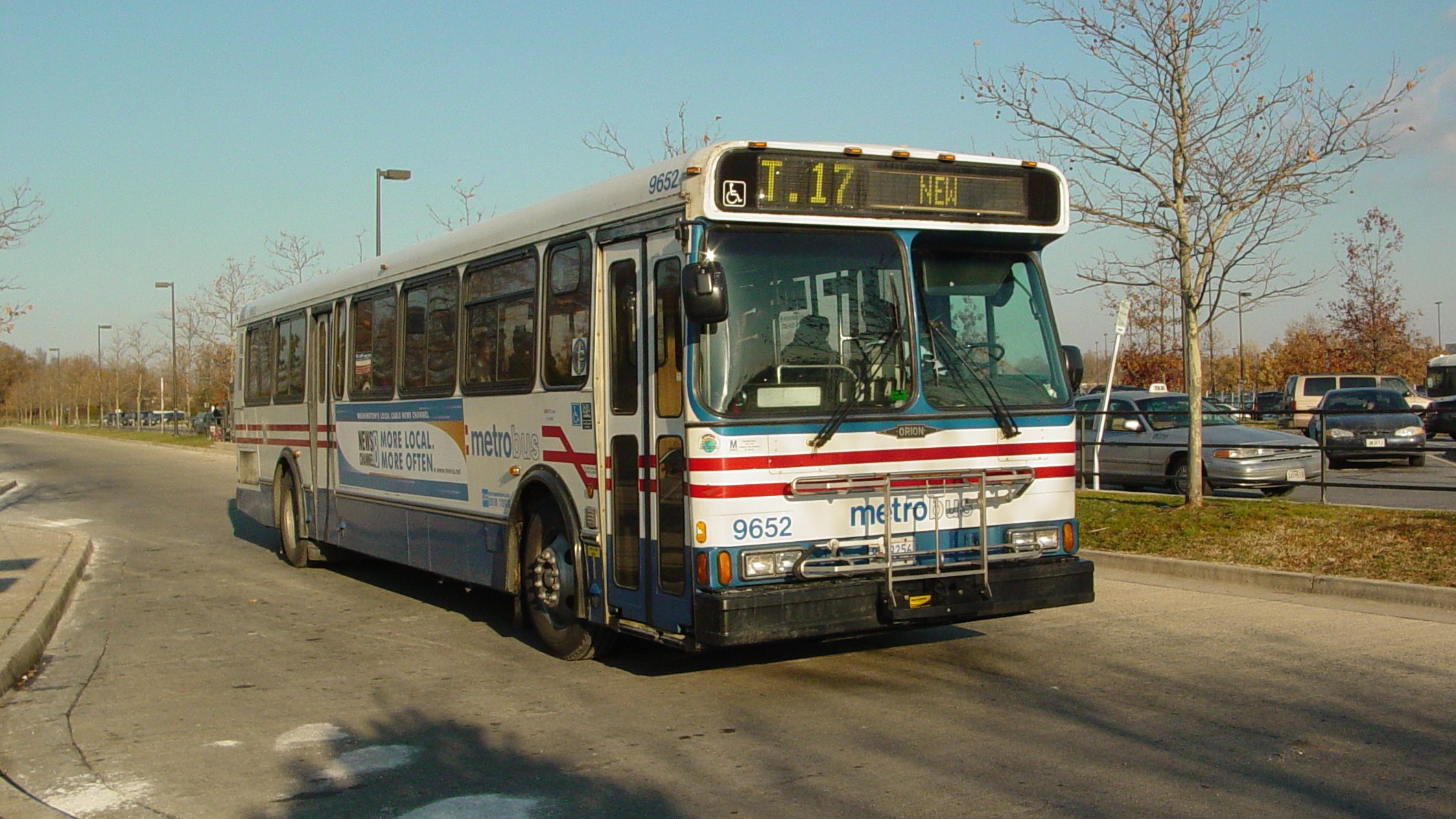 Metrobus Orion V 9652 running T17 service to New Carrollton, seen here at Greenbelt station.